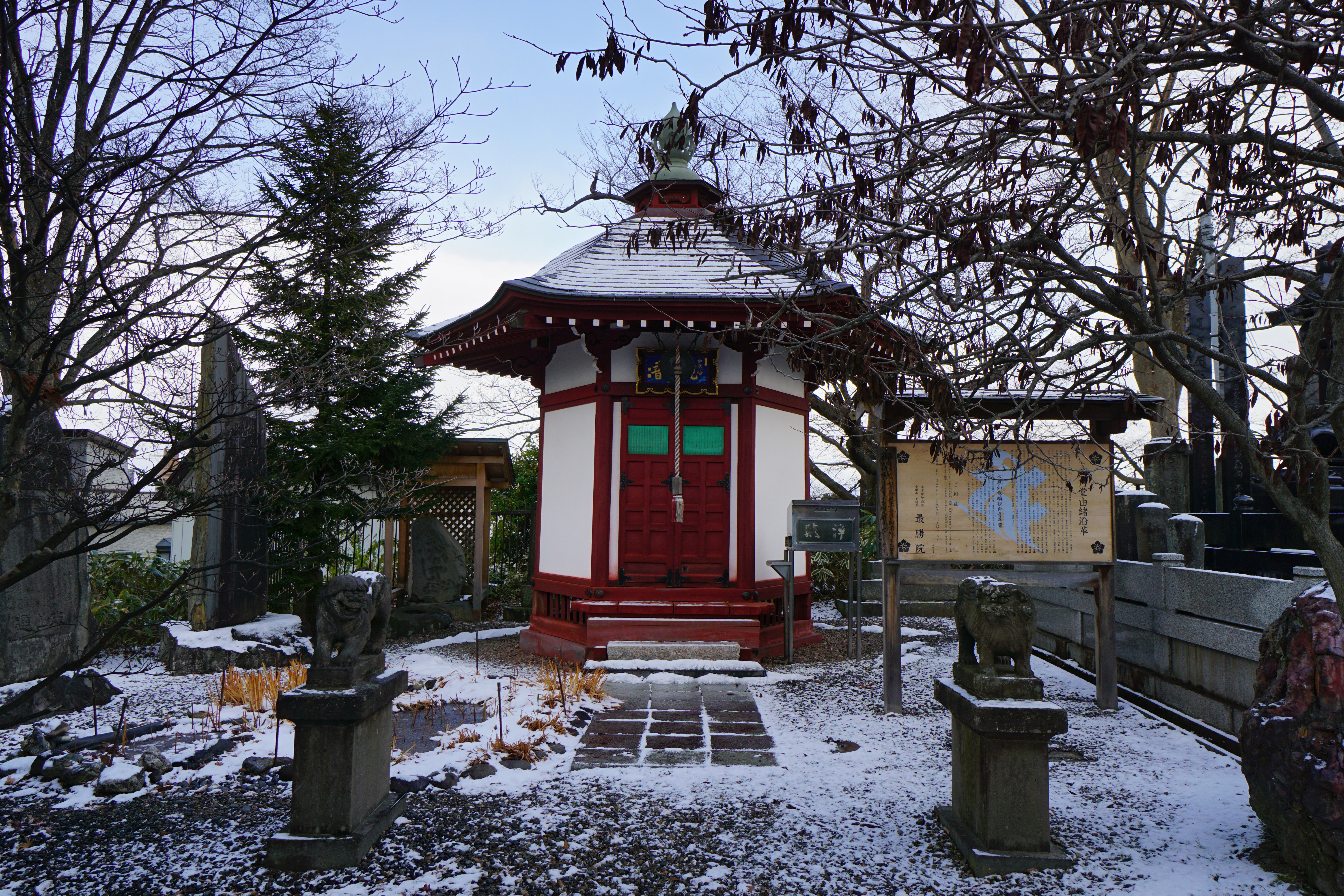 Saishō-in in Hirosaki, Aomori prefecture, Japan